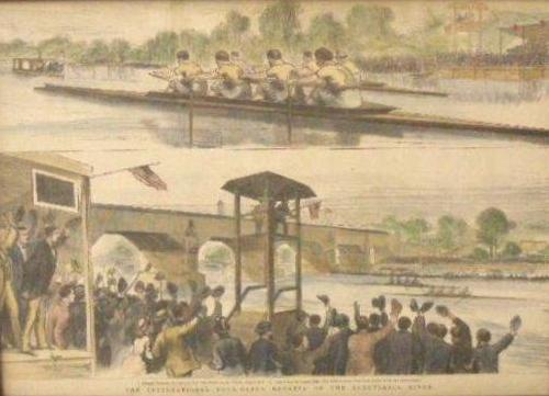 "The International Four Oared Regatta On The Schuylkill River, Struggle between the London and Yale Crews at the finish, August 29th & The Finish on August 30th [1876]- The Beaverwycks Victorious-Scene from The Grand Stand"